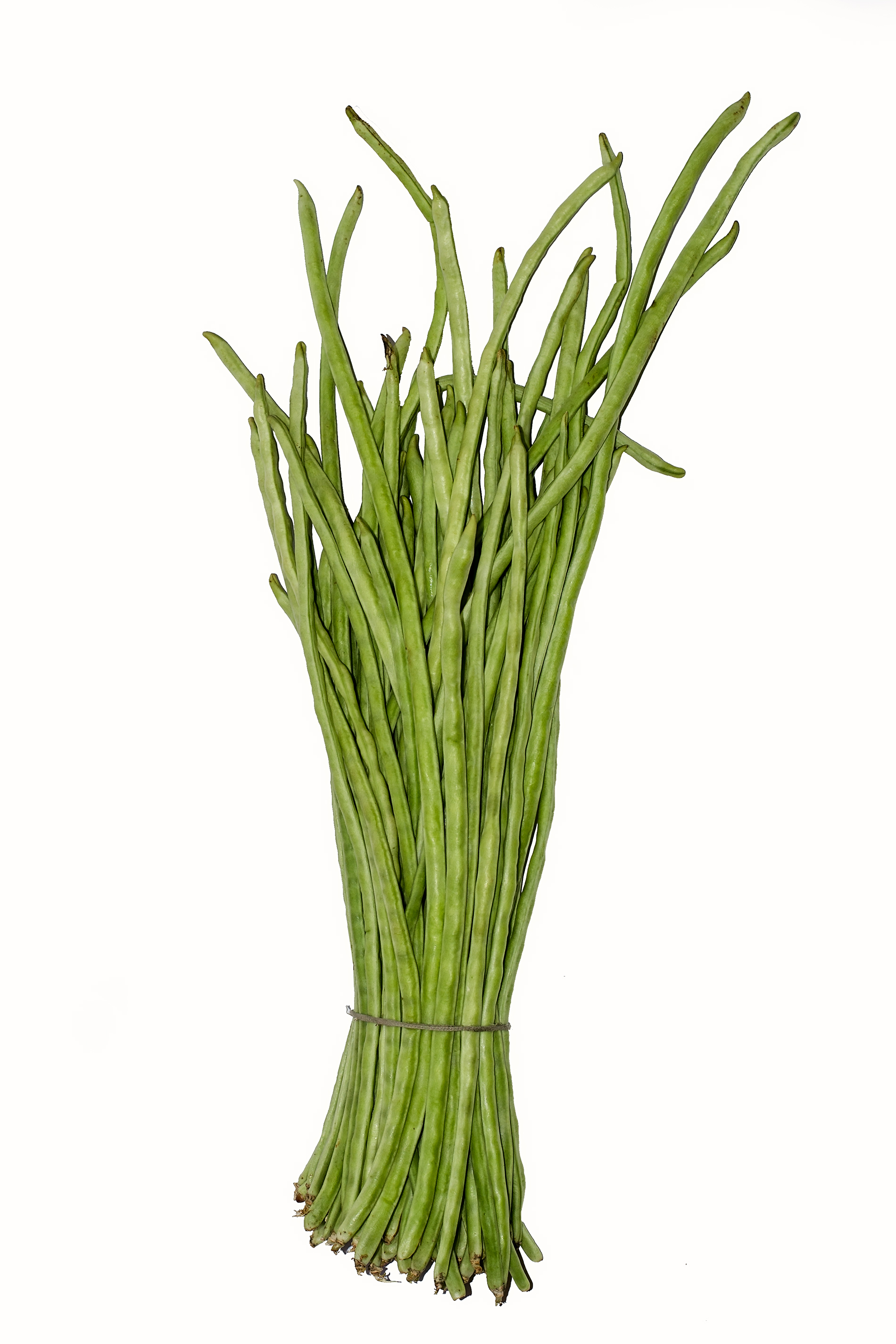 Snake Bean